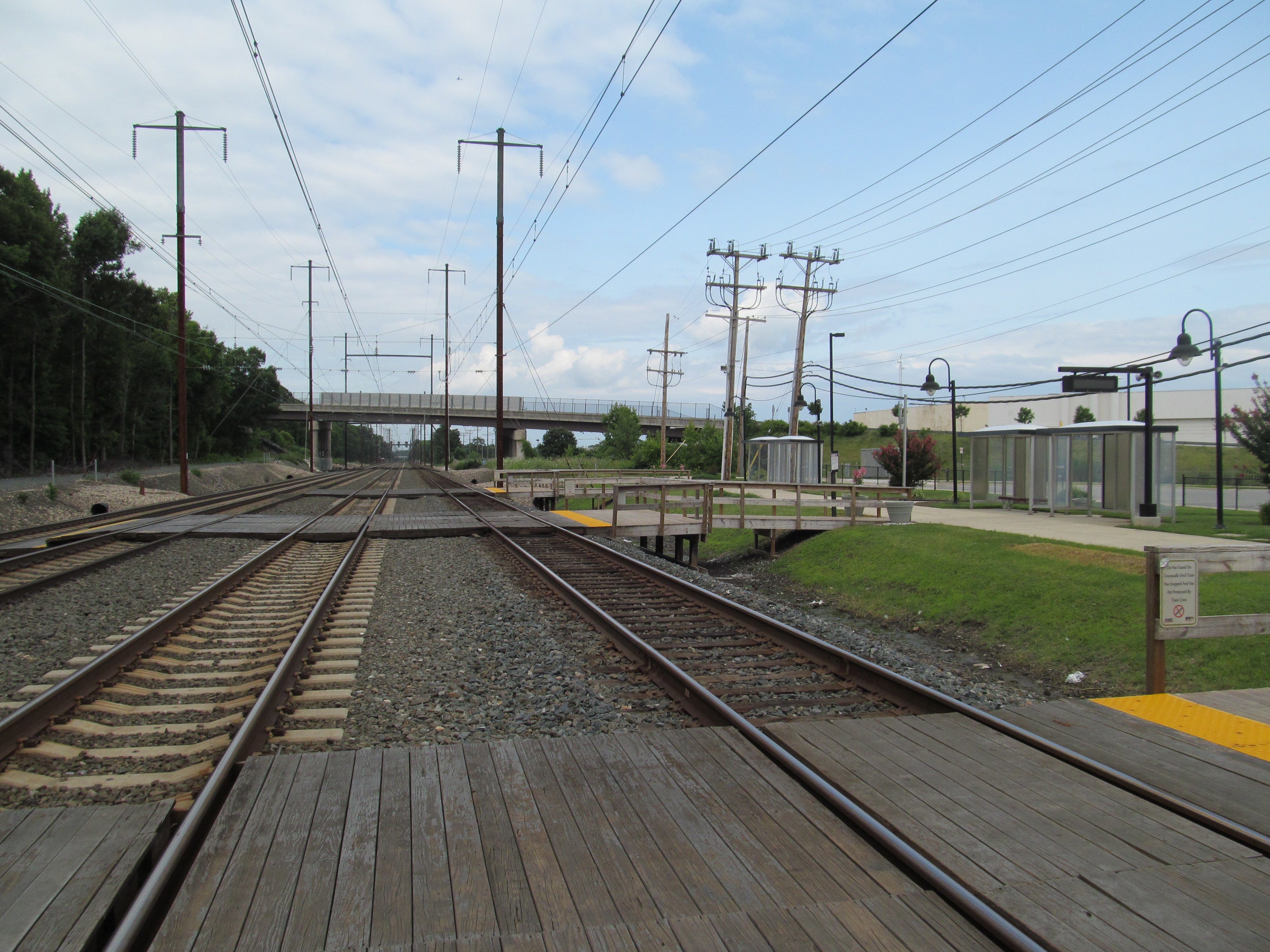 Looking northbound at the Martin State Airport MARC station